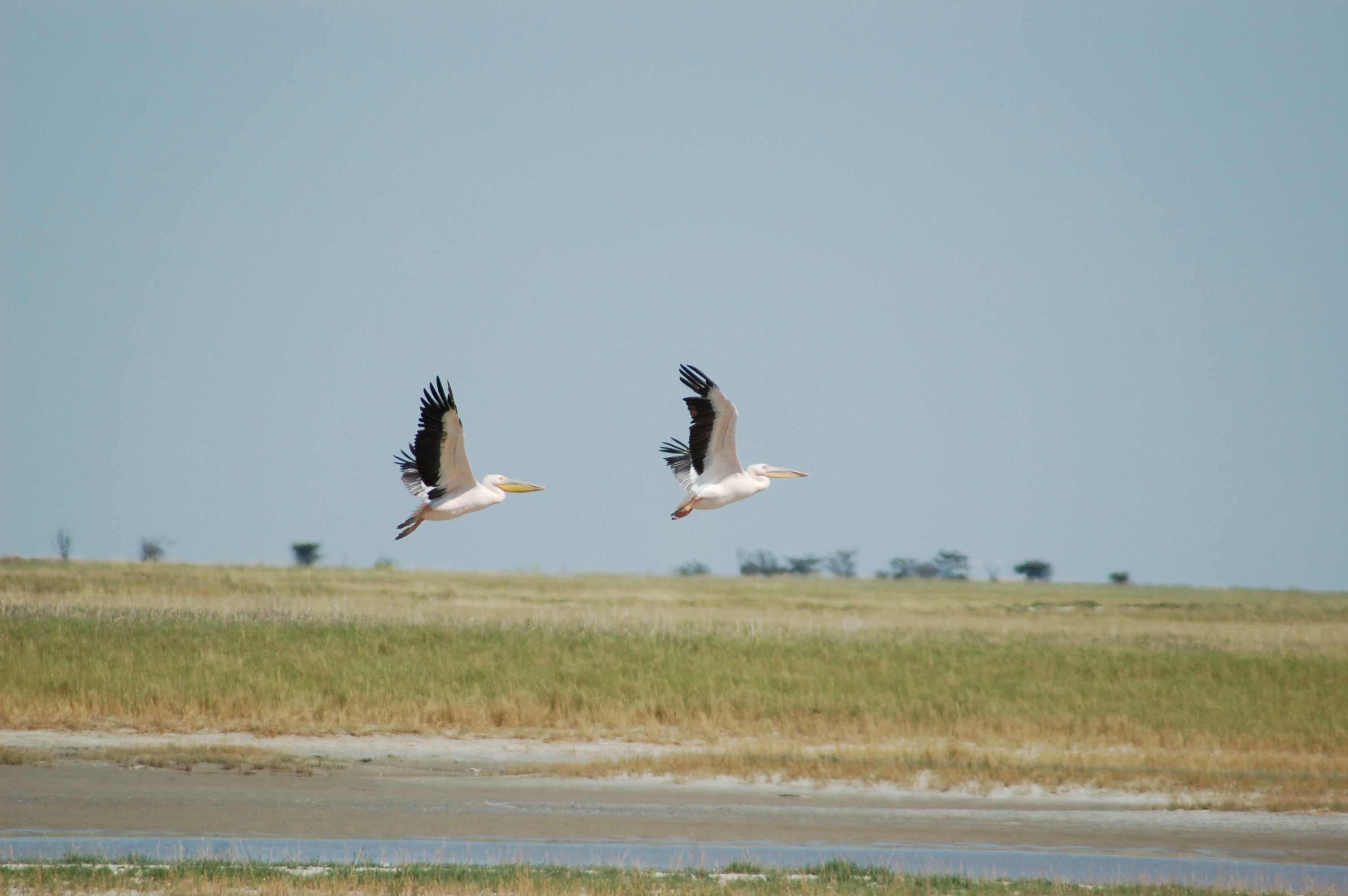 Great White Pelicans flying in Nata Bird Sanctuary, Botswana.